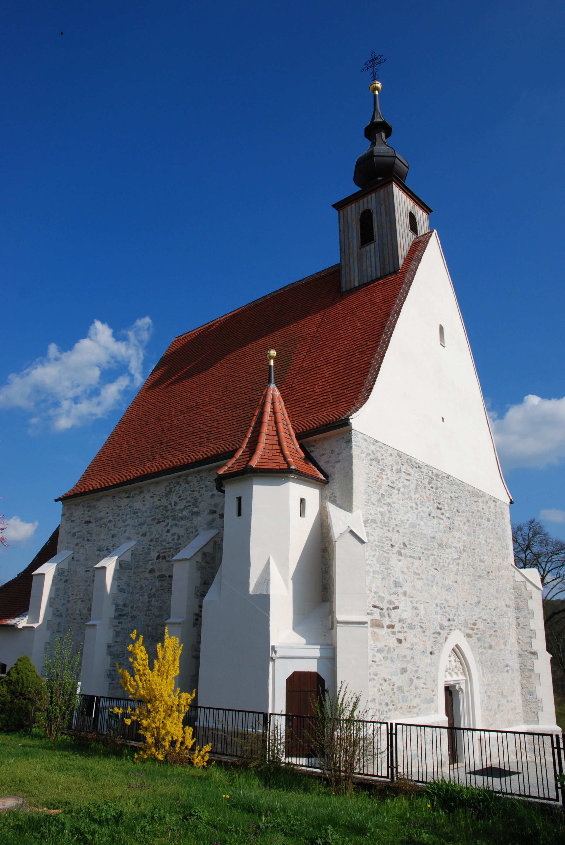 Pfarrkirche Hannersdorf